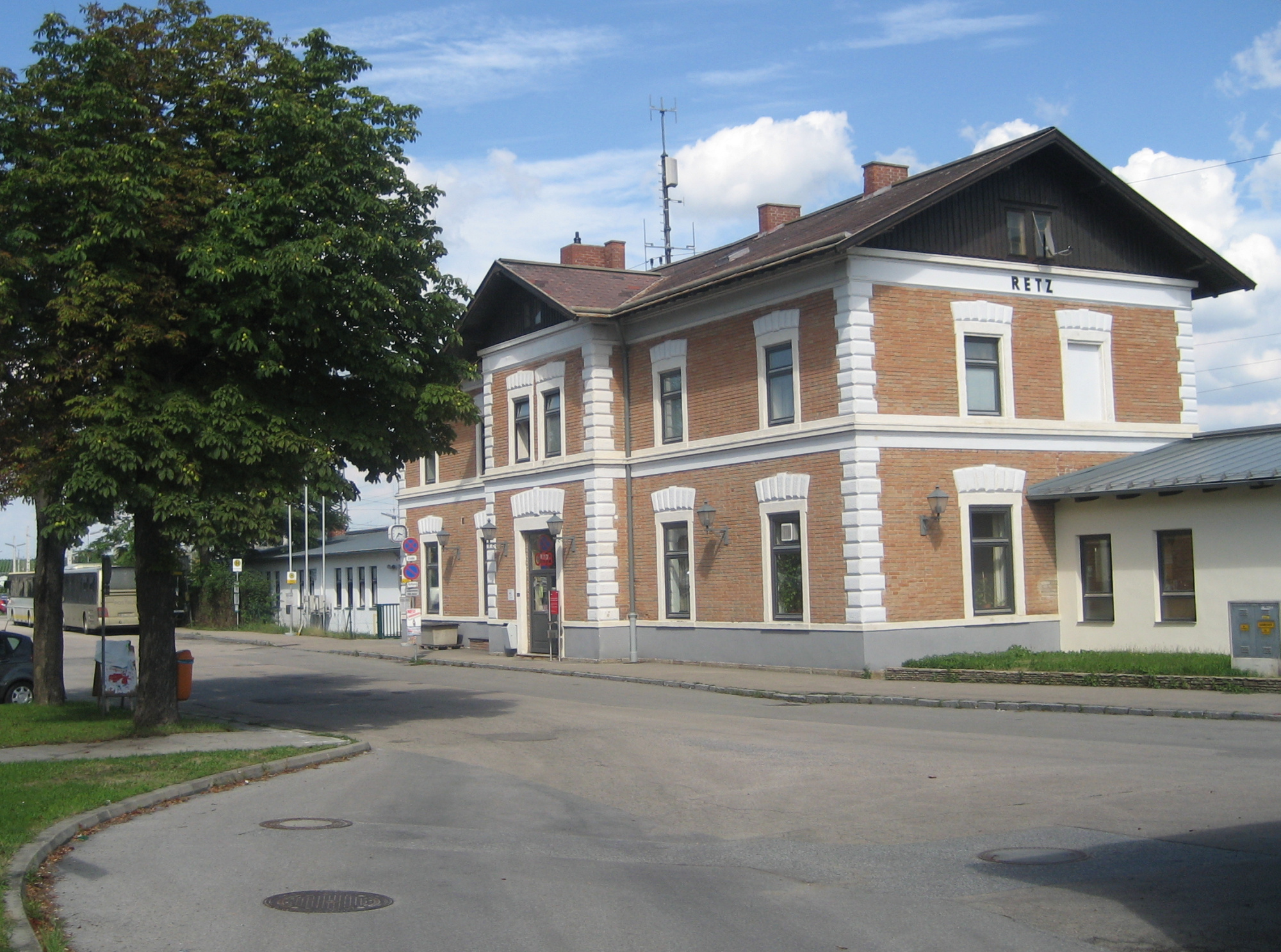 train station Retz in Lower Austria